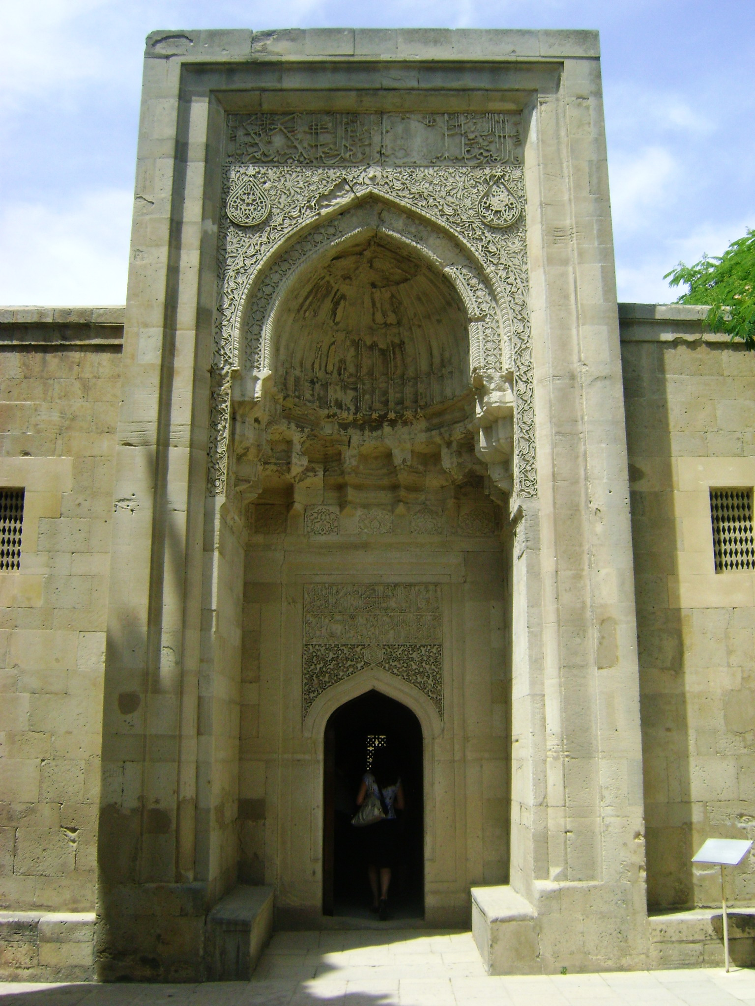 shirvanshakh_palace_old_city(baku)_azerbaijan_8-18centuries - tomb_buriat_vault_shirvanshahs_and_baku_khans